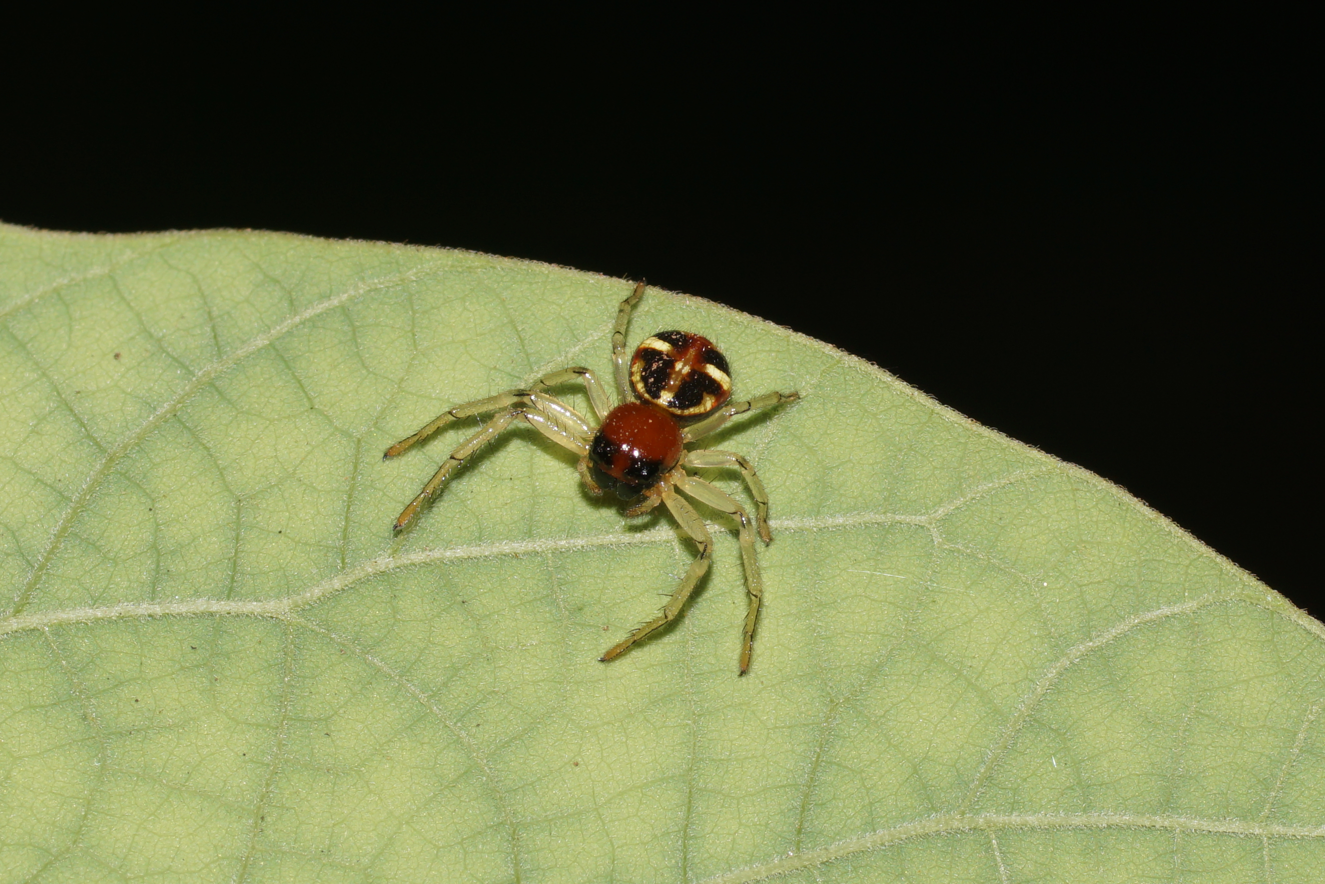 Camaricus formosus